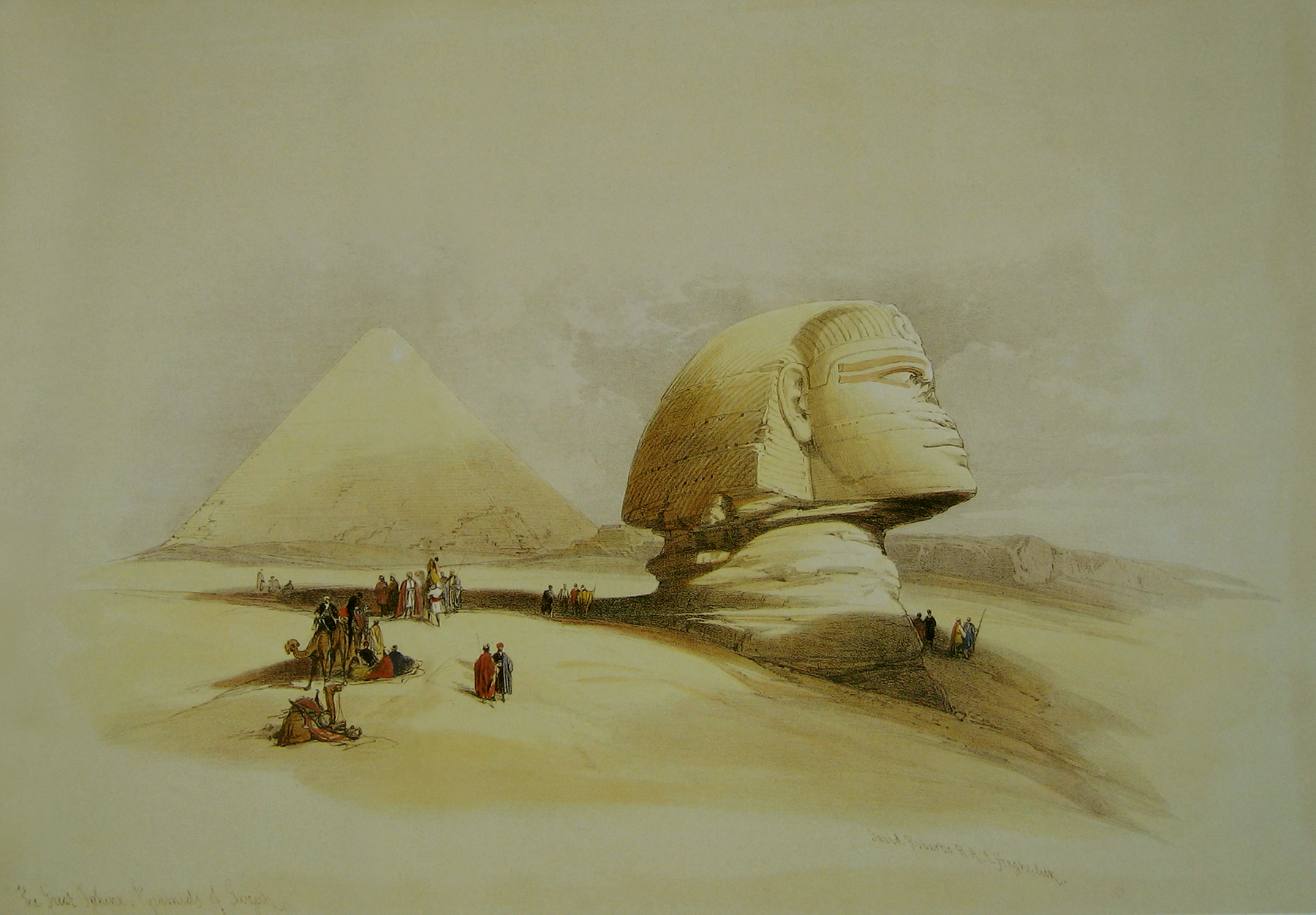 Side view of the Great Sphinx